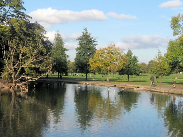 Autumn Reflections in Mount Pond, Clapham Common The trees are just beginning to brown and in a week or two the deciduous trees will be bare of leaves. For a moment you can forget you are in the middle of a major city.